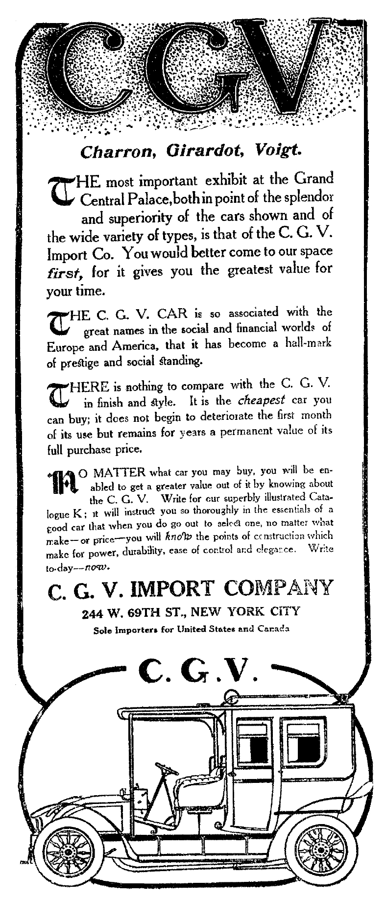 Charron, Girardot & Voigt - C.G.V. Import Company, New York